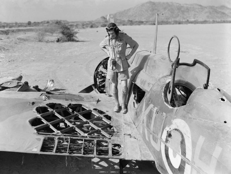 IWM caption : Pilot Officer Kennedy of No. 47 Squadron RAF Detachment inspects the damage to his Vickers Wellesley, K7715 'KU-H', at Agordat, Eritrea, after he was attacked by two Fiat CR 42s while on a bombing sortie over Keren on 25 March 1941. His air gunner, Sergeant German, was mortally wounded and the port wing was set on fire. Kennedy executed a vertical dive to put out the flames and returned to the Detachment's base at Agordat, where he crashed on landing.